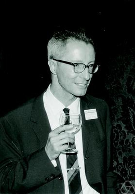 Herbert Ryser, Nice 1970